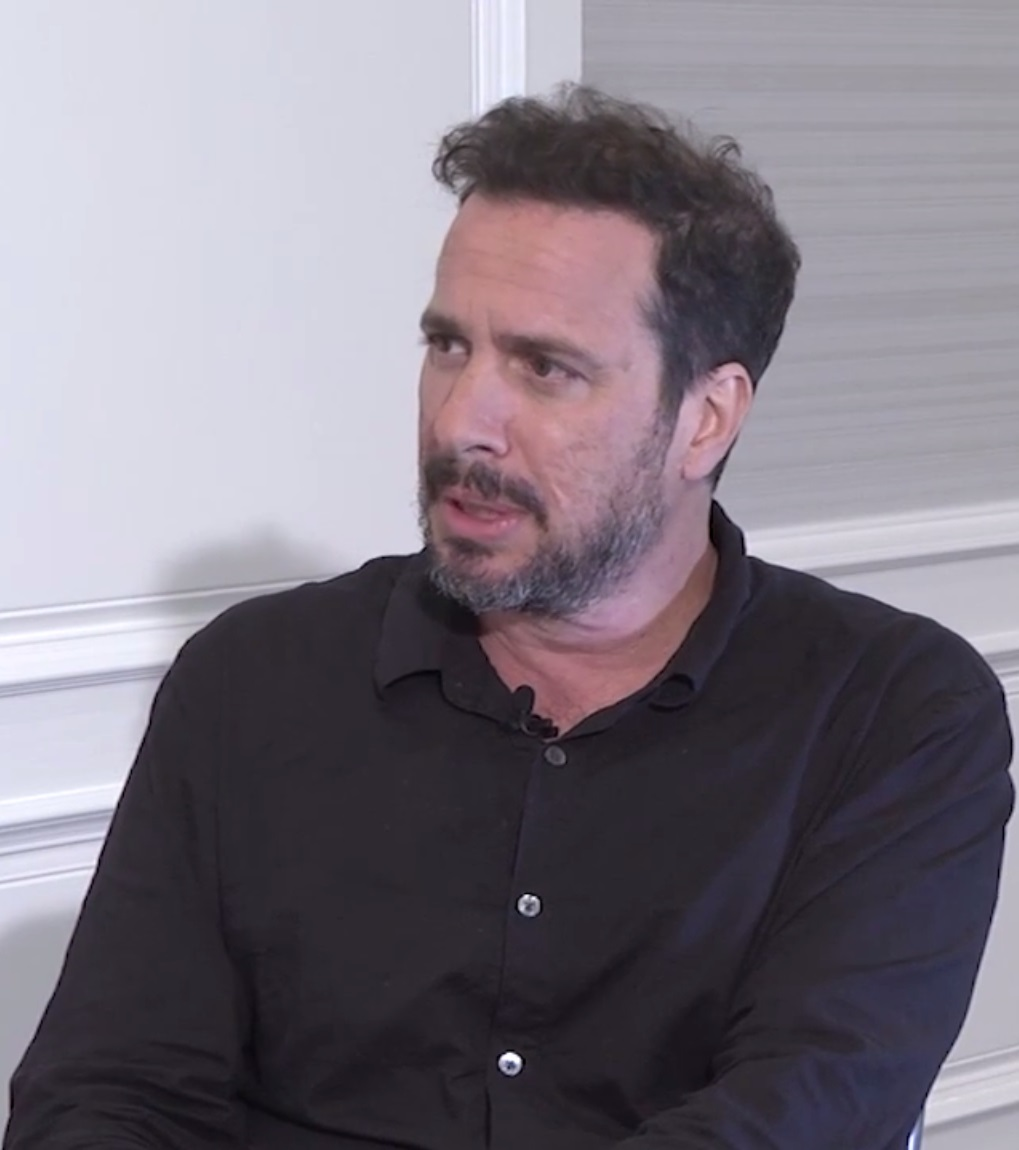 American director Michael Cuesta interviewed by Sidewalks TV host Veronica Castro about his film "Kill The Messenger" and his career.